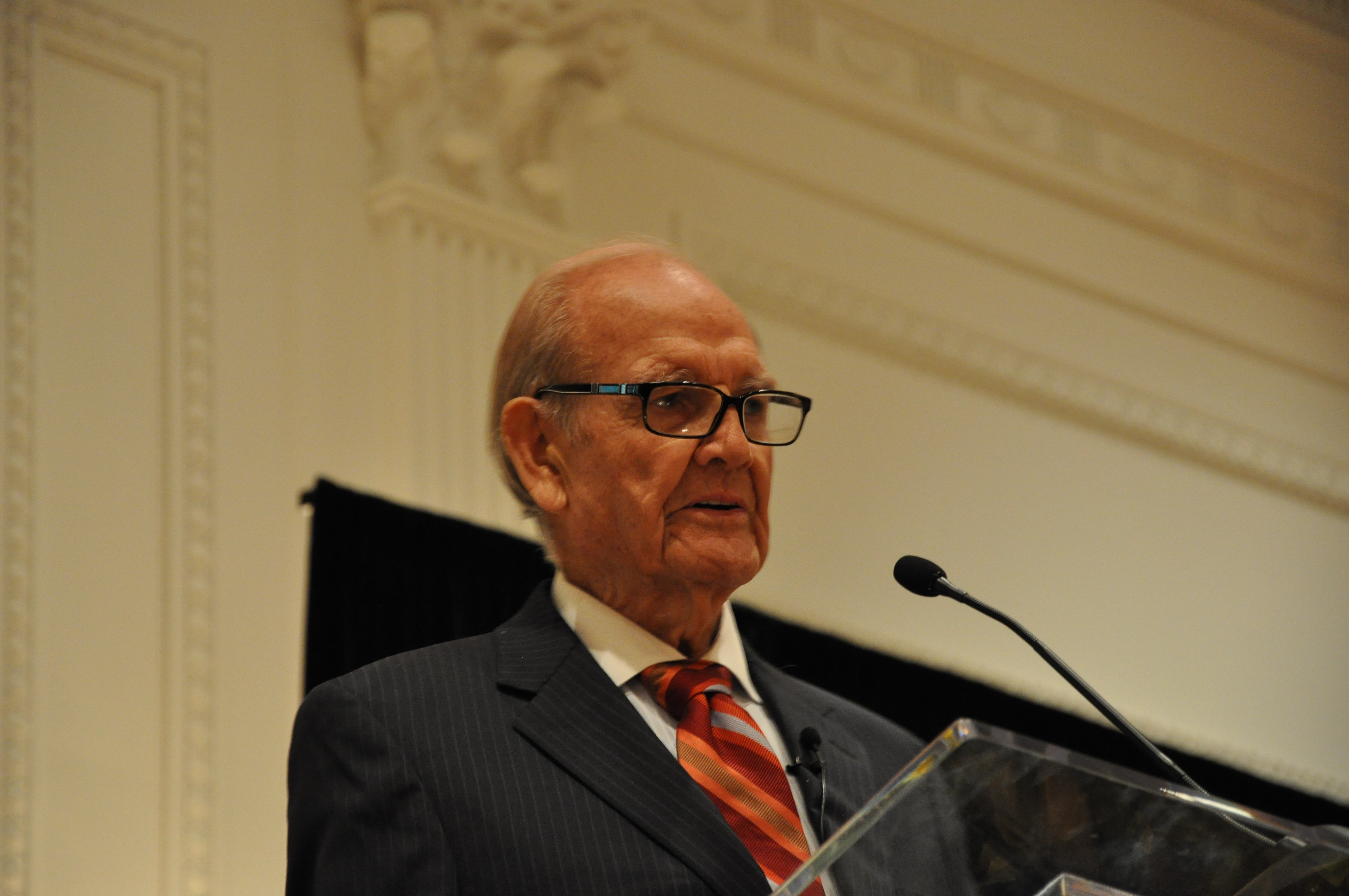 Senator George McGovern speaking at the Richard M. Nixon Library and Museum in Yorba Linda, California during his book tour